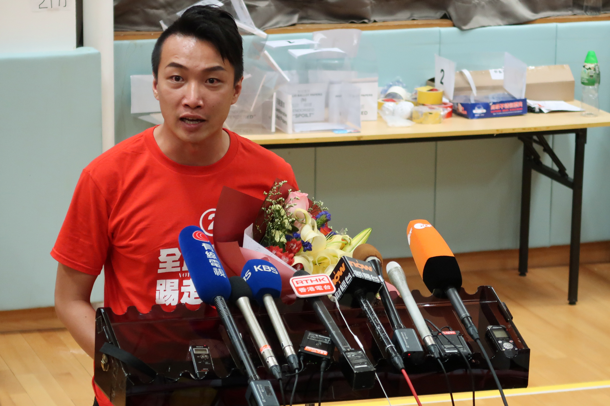 Jimmy Sham speak after District council election wins